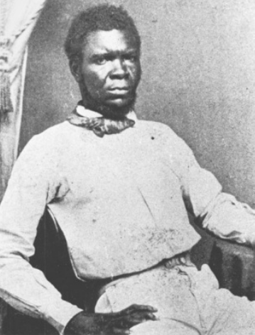 Captain Broos of the Brooskampers in Suriname (circa 1870)